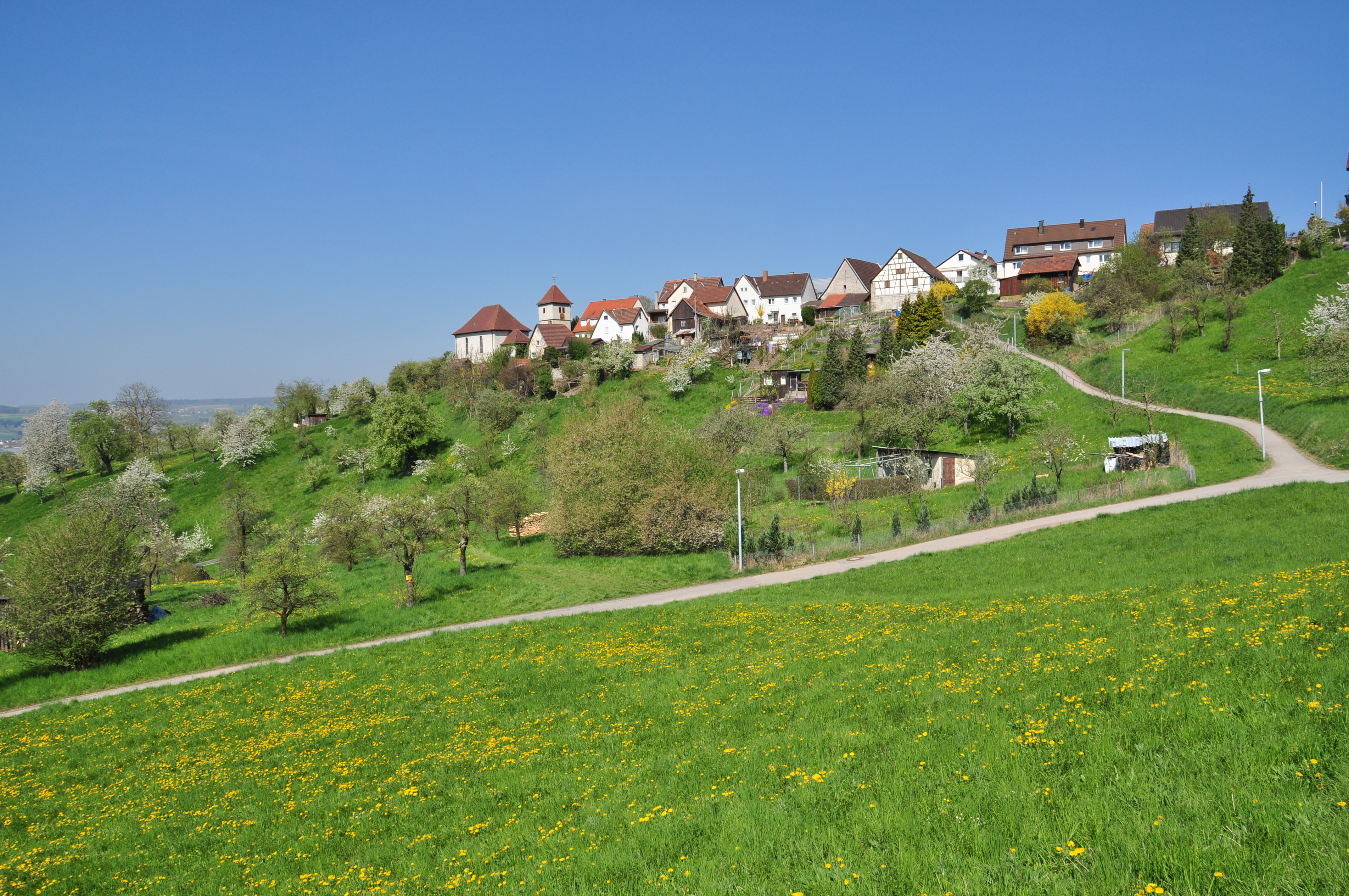 Moenchberg "Monk-mountain", a small village close to Herrenberg in Germany